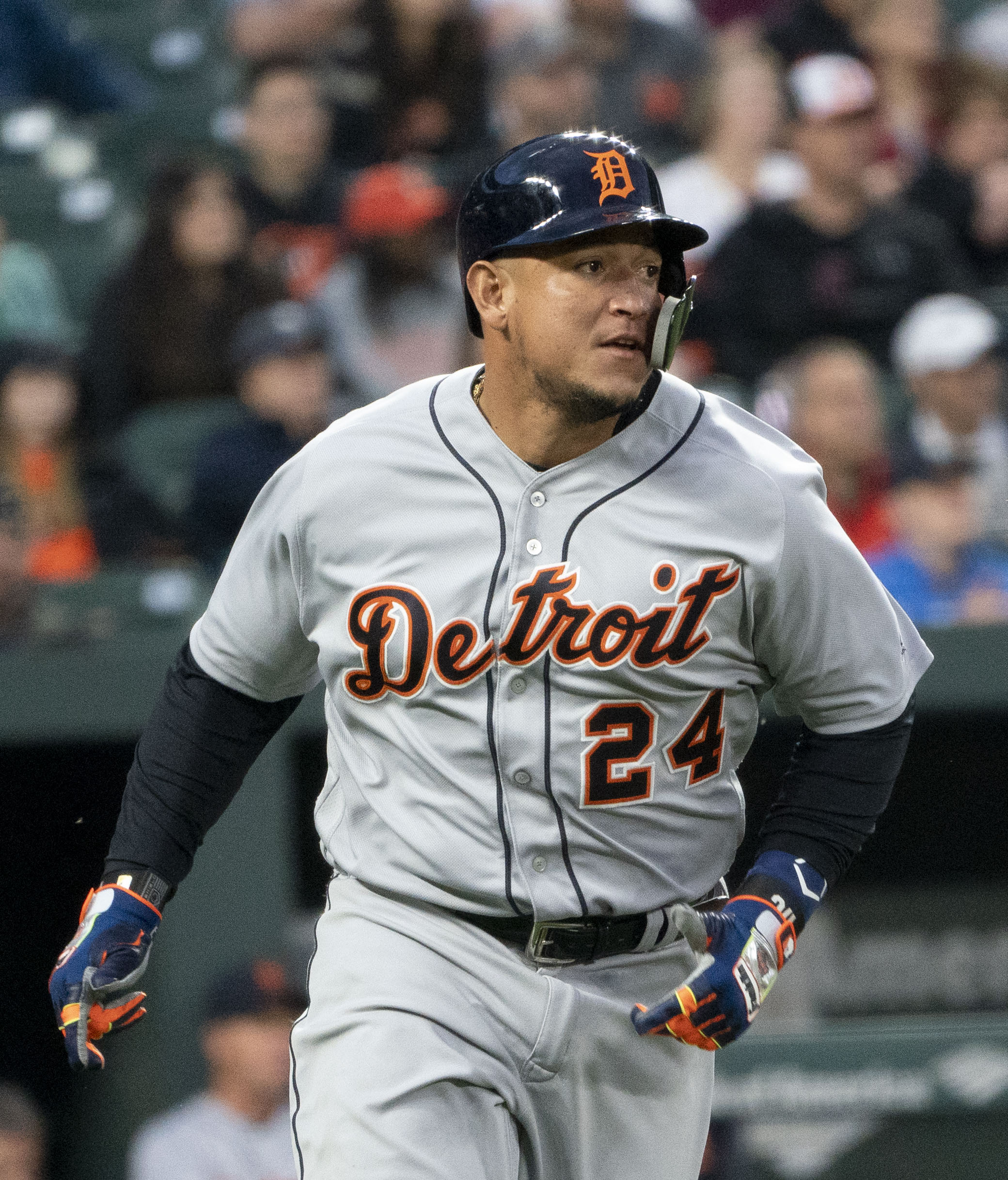 Detroit Tigers first baseman Miguel Cabrera on April 28, 2018.